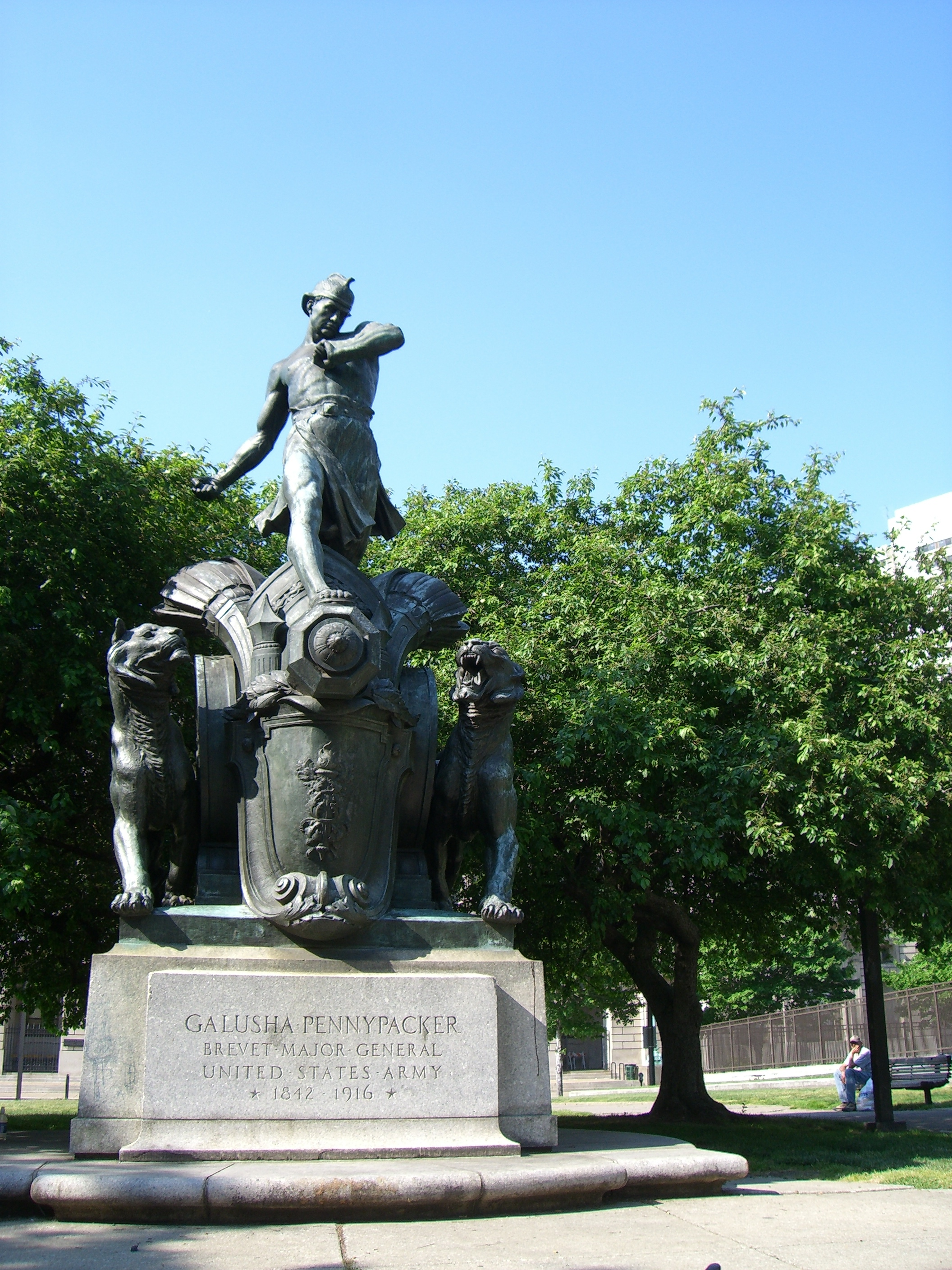 The Galusha Pennypacker Statue located off the north east side of Logan Square, Philadelphia, PA. Created by Charles Grafly, Albert Laessle, in 1934. An off set photo of the Galusha Pennypacker statue, taken to include more of the statue and fewer pedestrians.